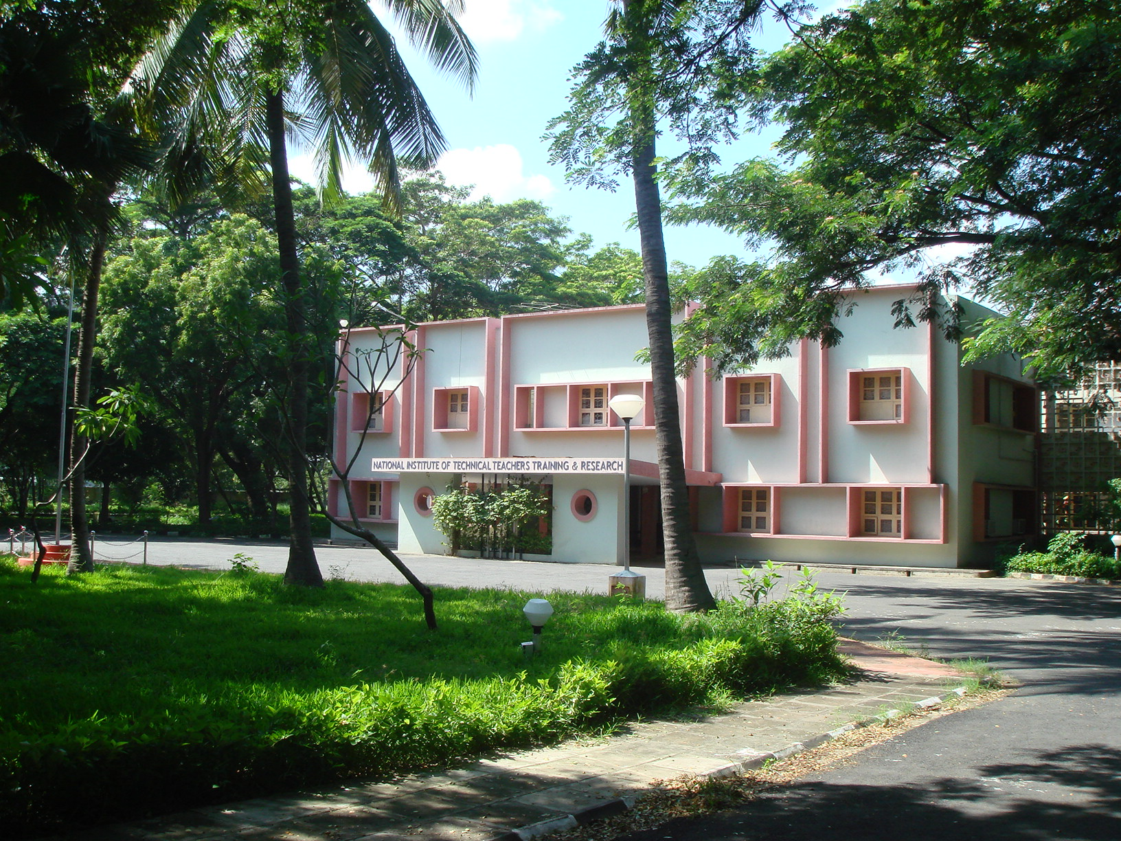 Serene view of National Institute of Technical Teachers Training and Research, Chennai